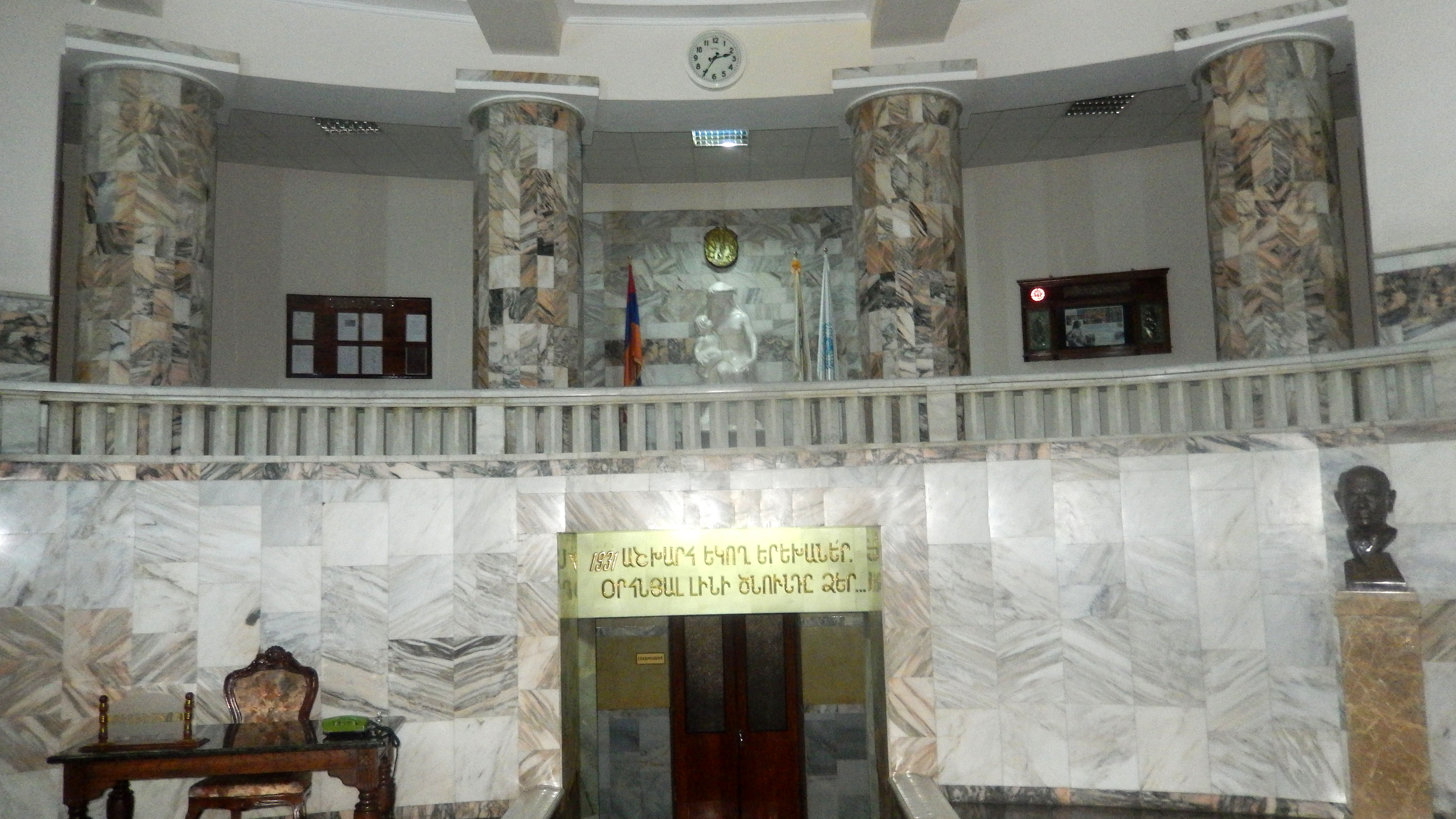 Margaryan Maternity House, Yerevan